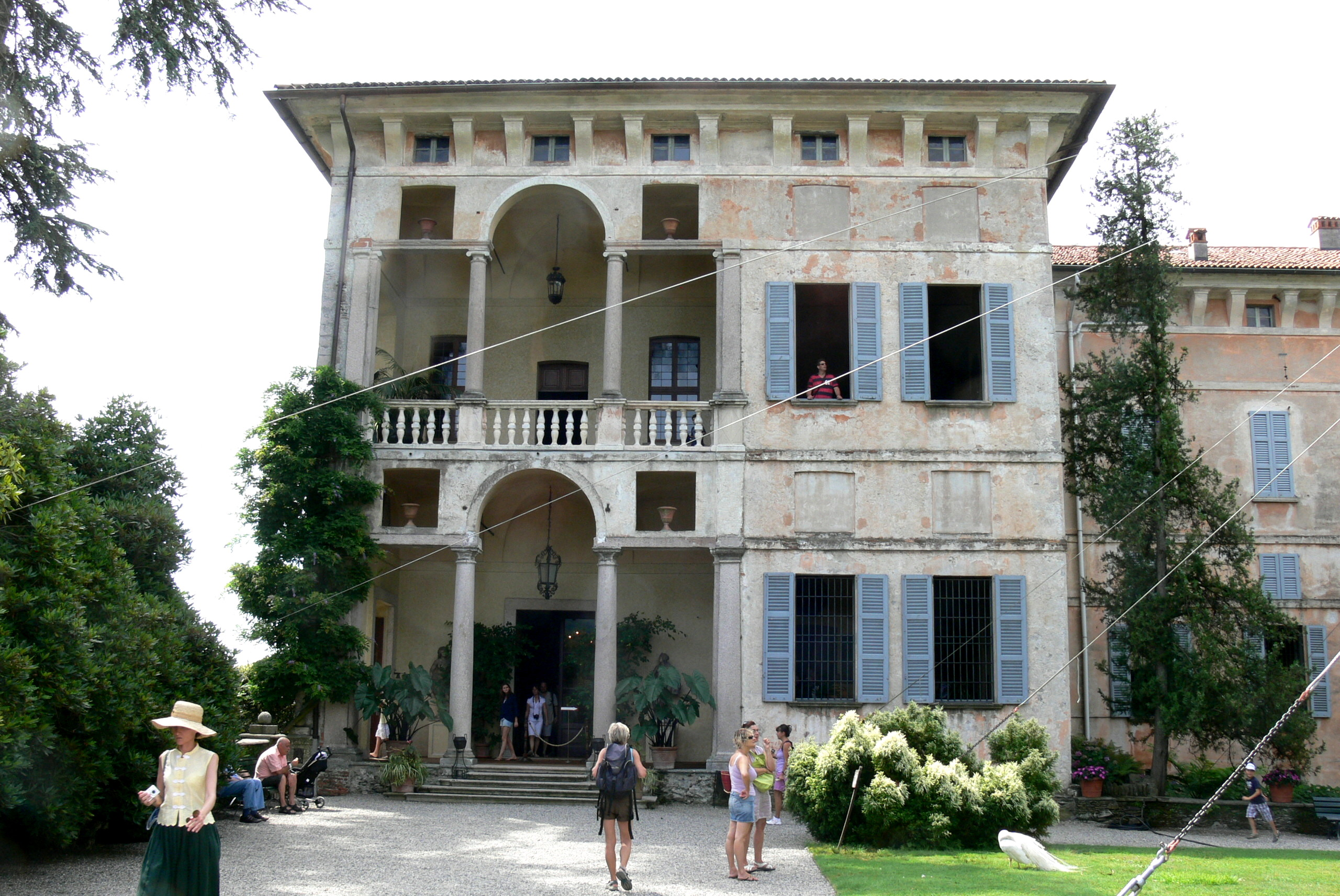 Isola Madre ( Lago Maggiore ). Palazzo Borromeo.